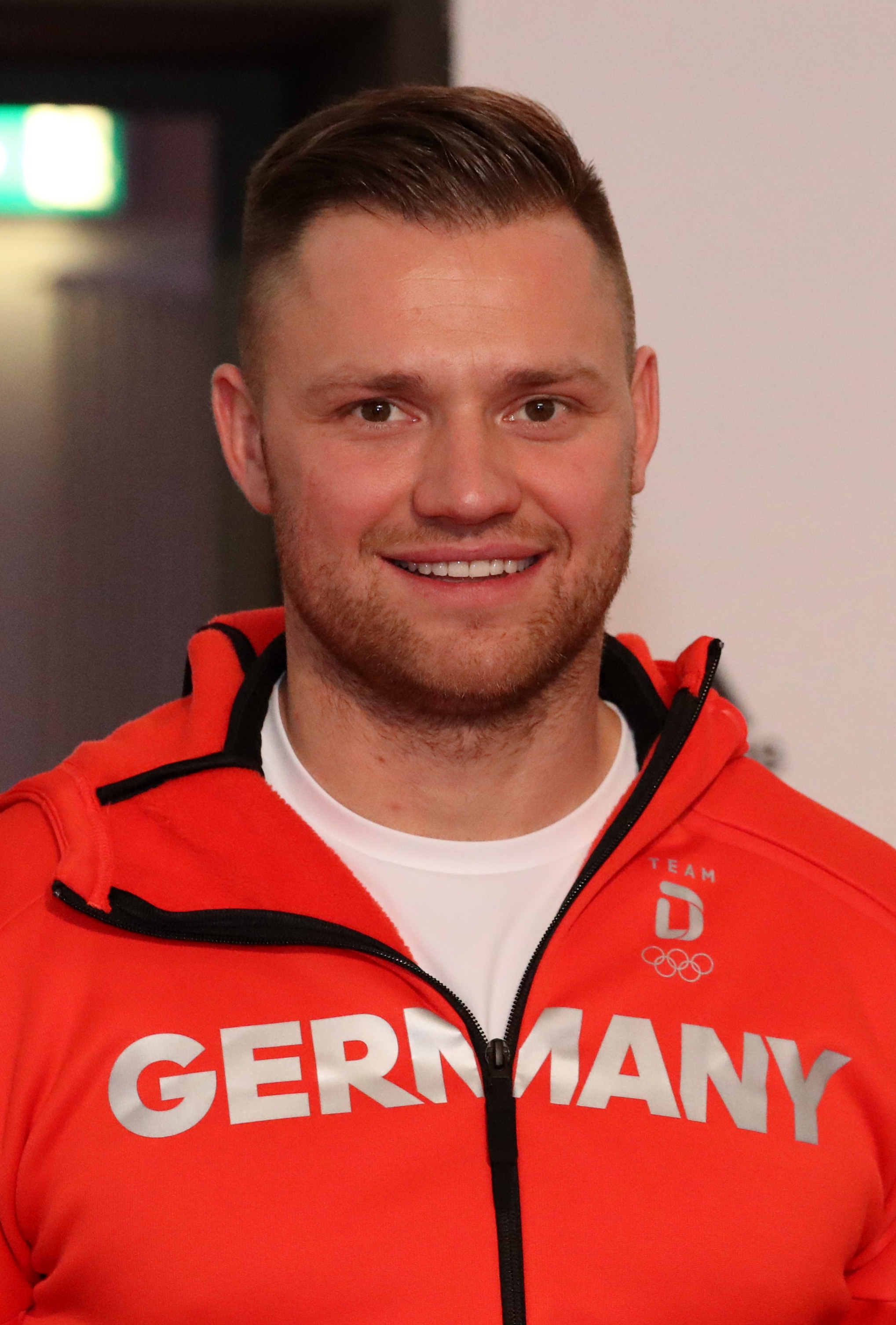 Investiture of the German team for Winter Olympics 2018 in Pyeonchang: Toni Eggert